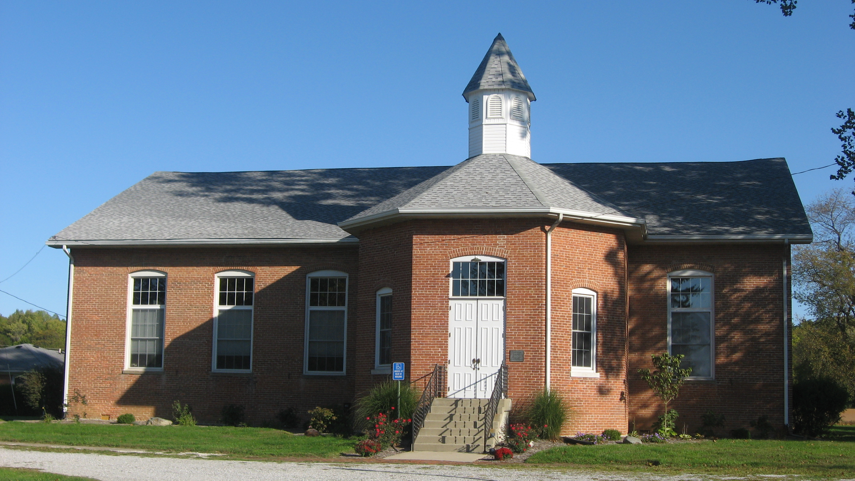 Front of the Walnut Ridge Friends Meetinghouse, located at 8956 W. County Road 800N west of Carthage in Ripley Township, Rush County, Indiana, United States. Built in 1827 and since modified, it is listed on the National Register of Historic Places.